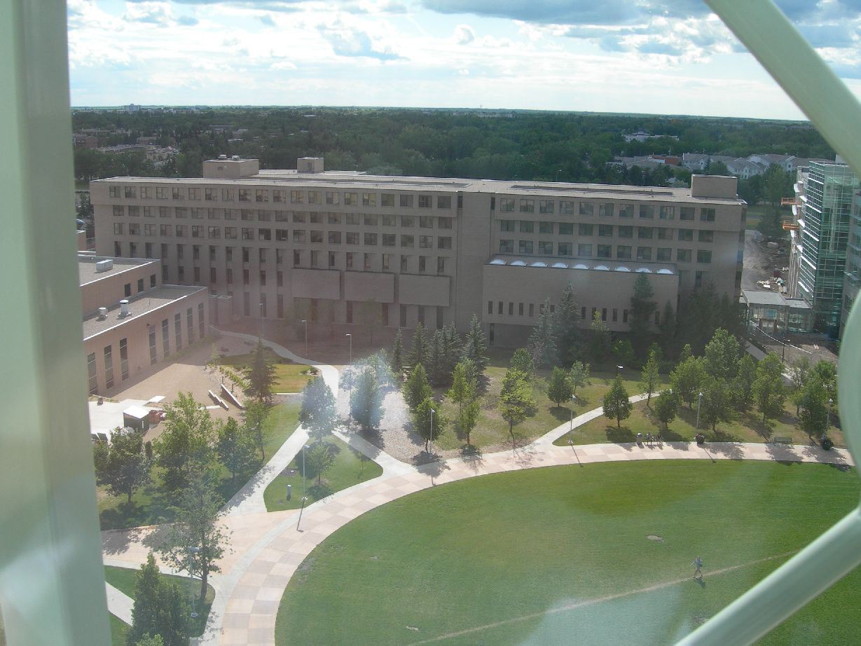 Self-made